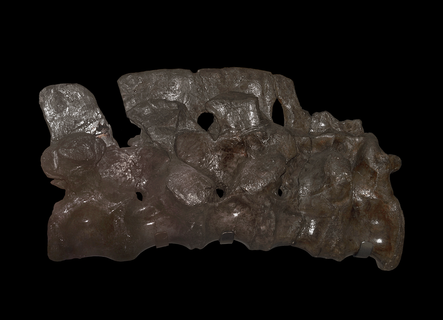 Fossil in the Oxford University natural history museum